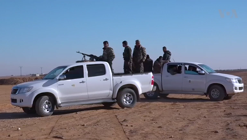 SDF technicals during the Northern Raqqa offensive (November 2016–present)